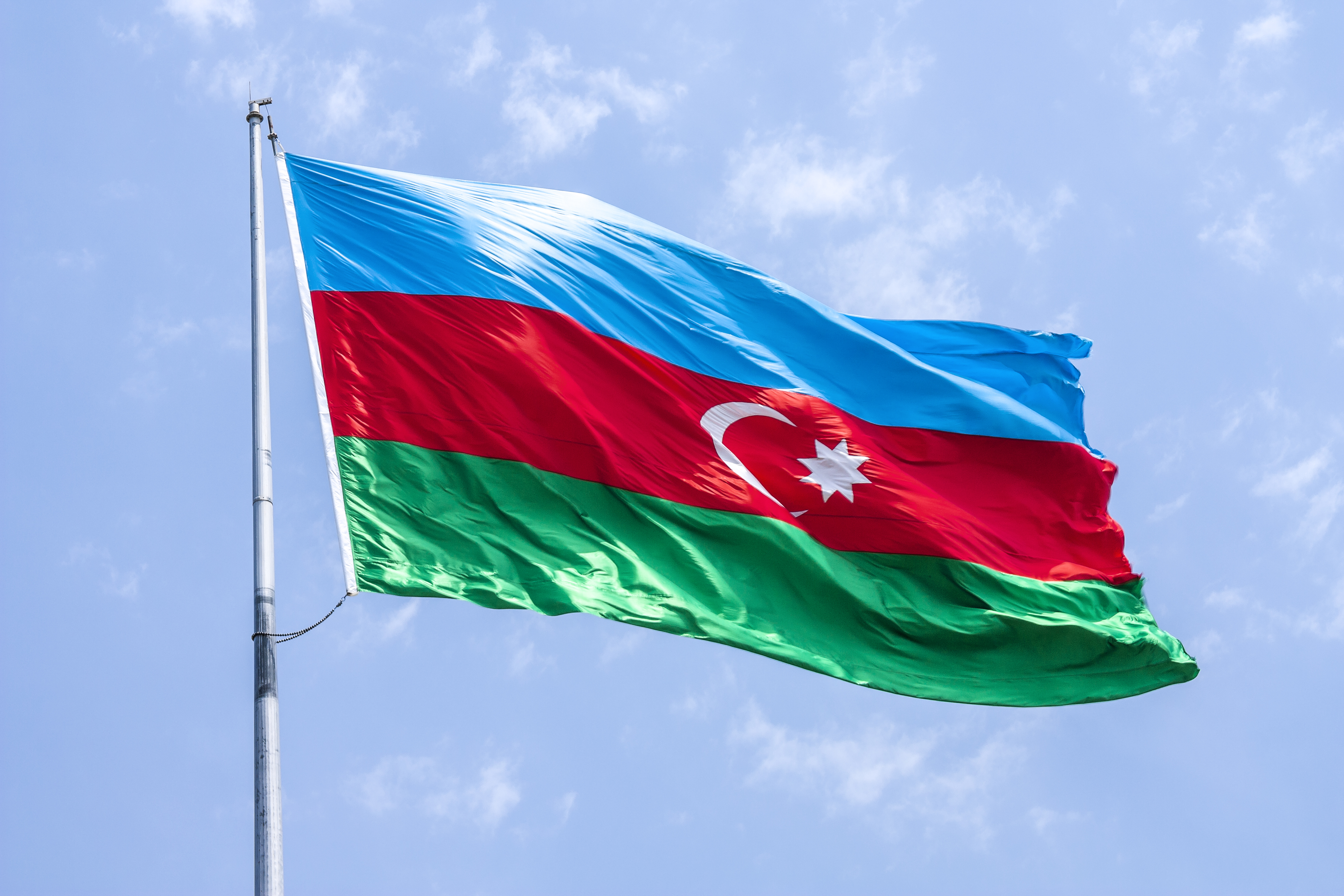 The national flag of Azerbaijan